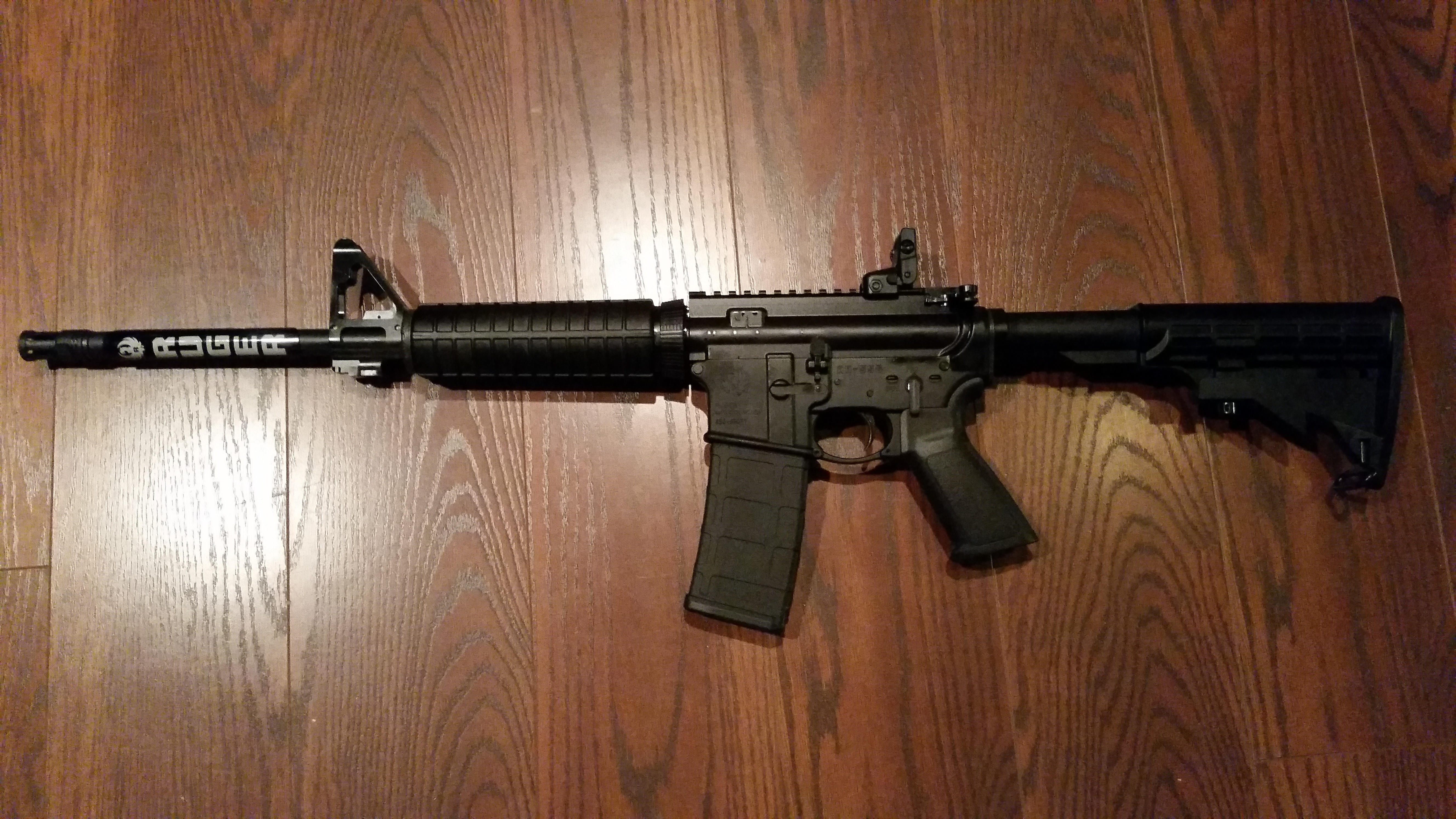 Ruger AR-556 converted via Flickr-to-Commons